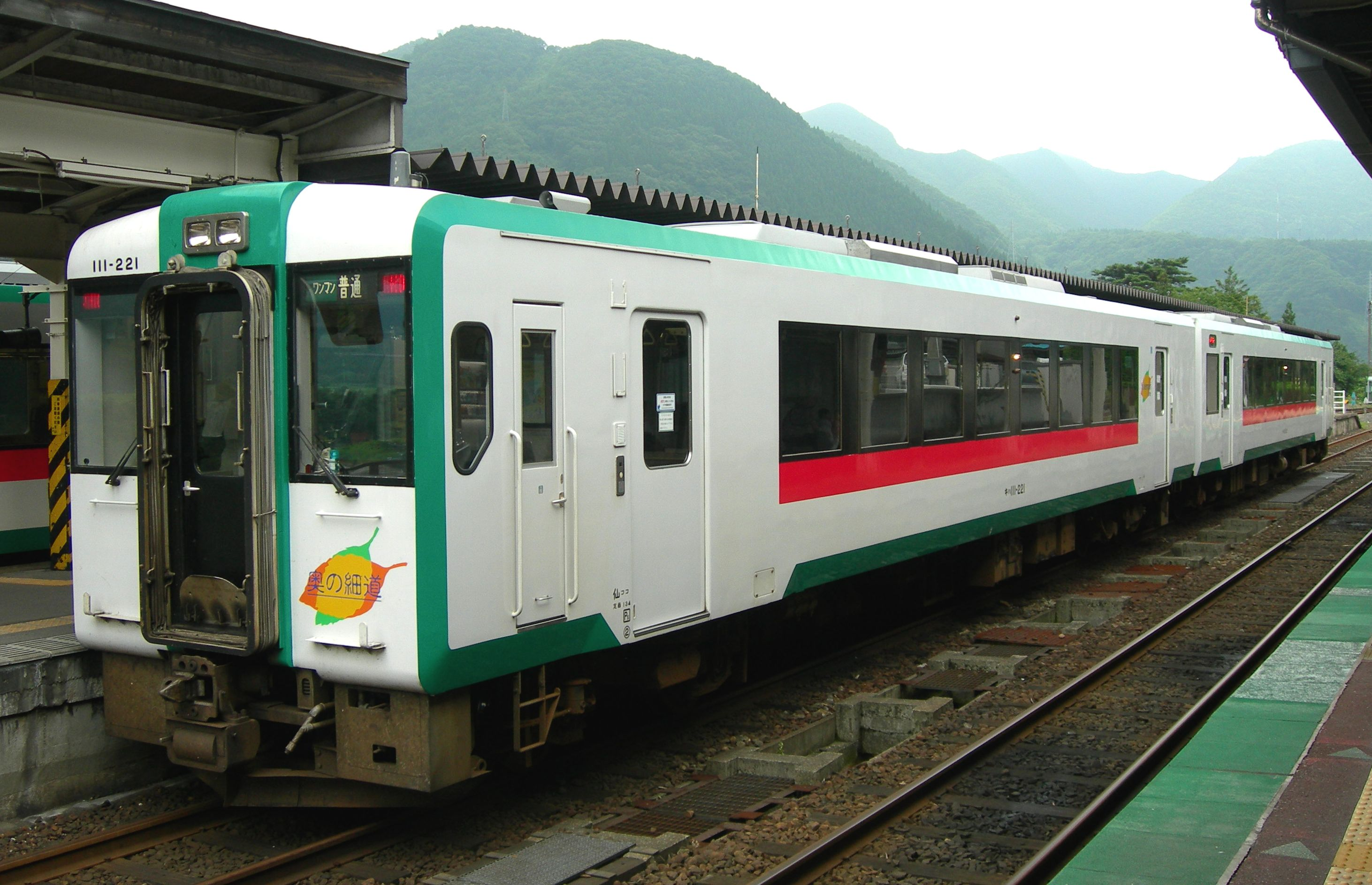 JR East Kiha 110 DMU in Rikuto colour, at Naruko-Onsen Station, East Rikuu Line